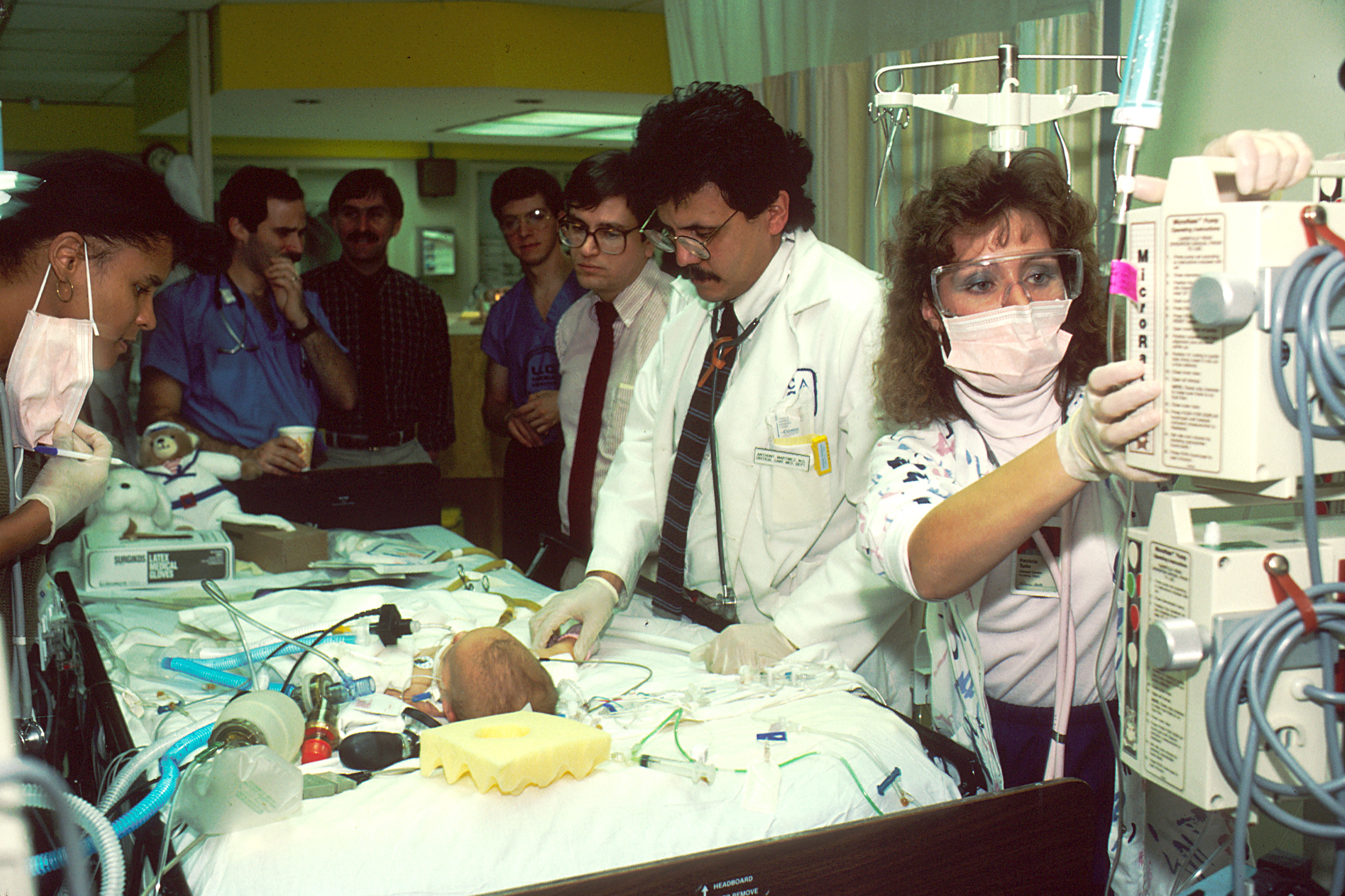 Title Doctors Examine Infant Description A group of doctors examine an infant in the intensive care unit (ICU). Topics/Categories Locations -- Clinic/Hospital People -- Adult People -- Child People -- Health Professional and Patient Type Color, Other Source National Cancer Institute